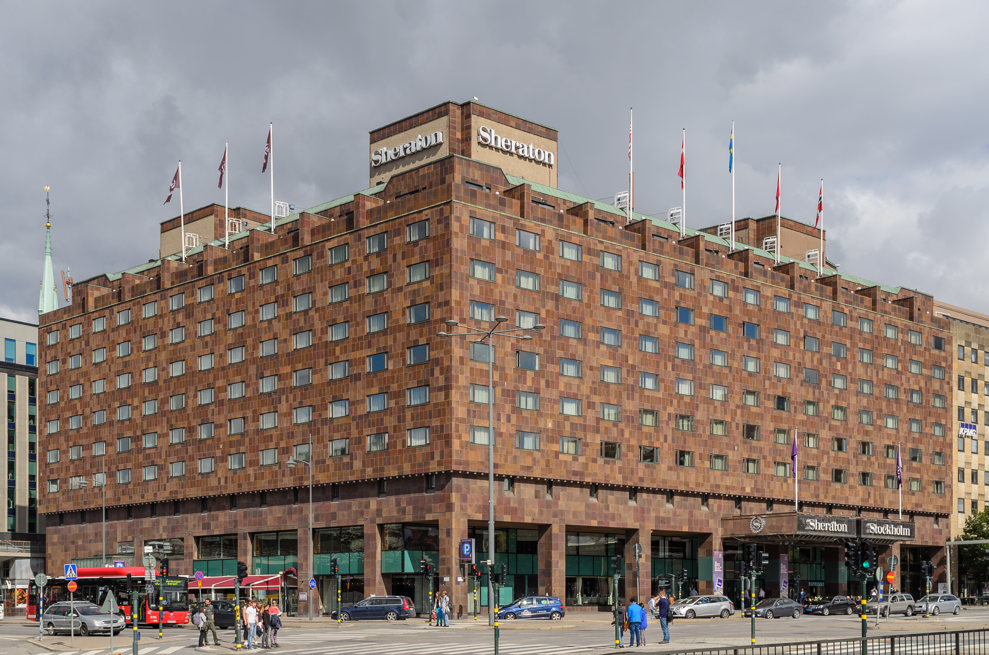 Sheraton hotel, Stockholm.